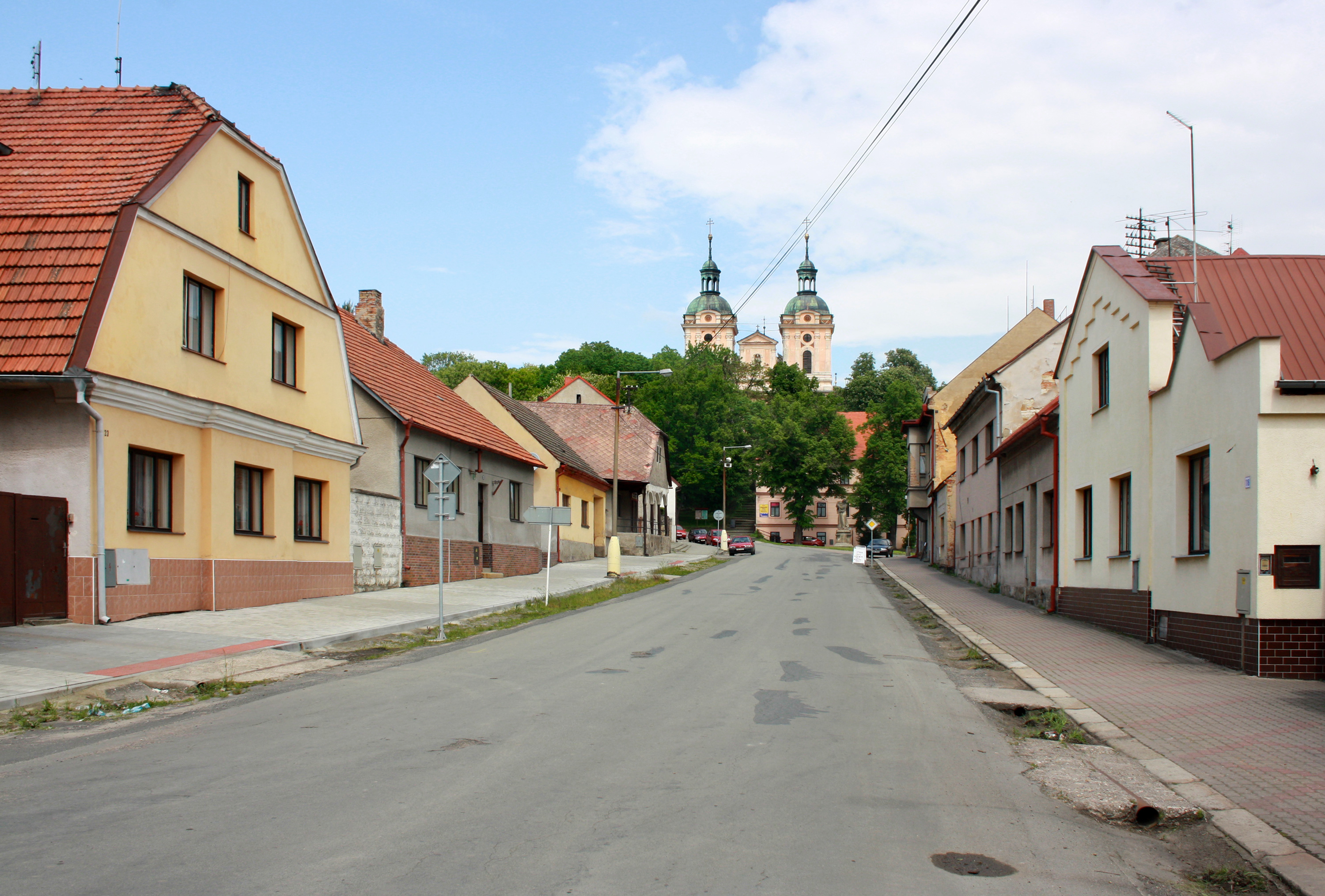 Husova street in Rožďalovice town, Czech Republic